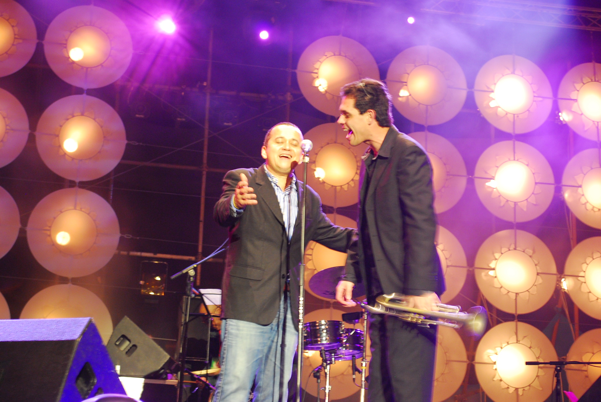 Yuri Buenaventura at Festival of Dakhla in Morocco